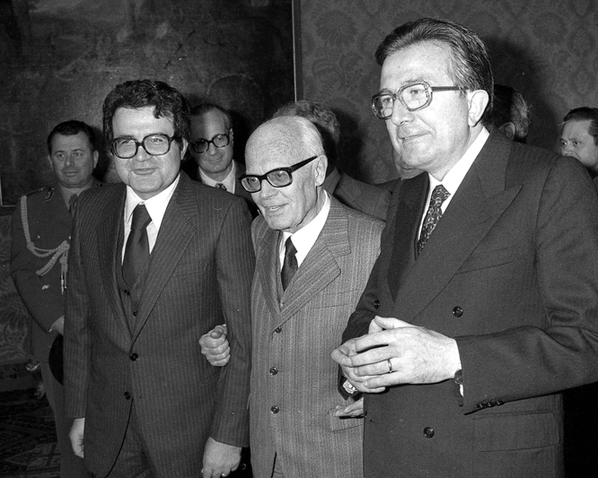 Romano Prodi, Sandro Pertini, Giulio Andreotti